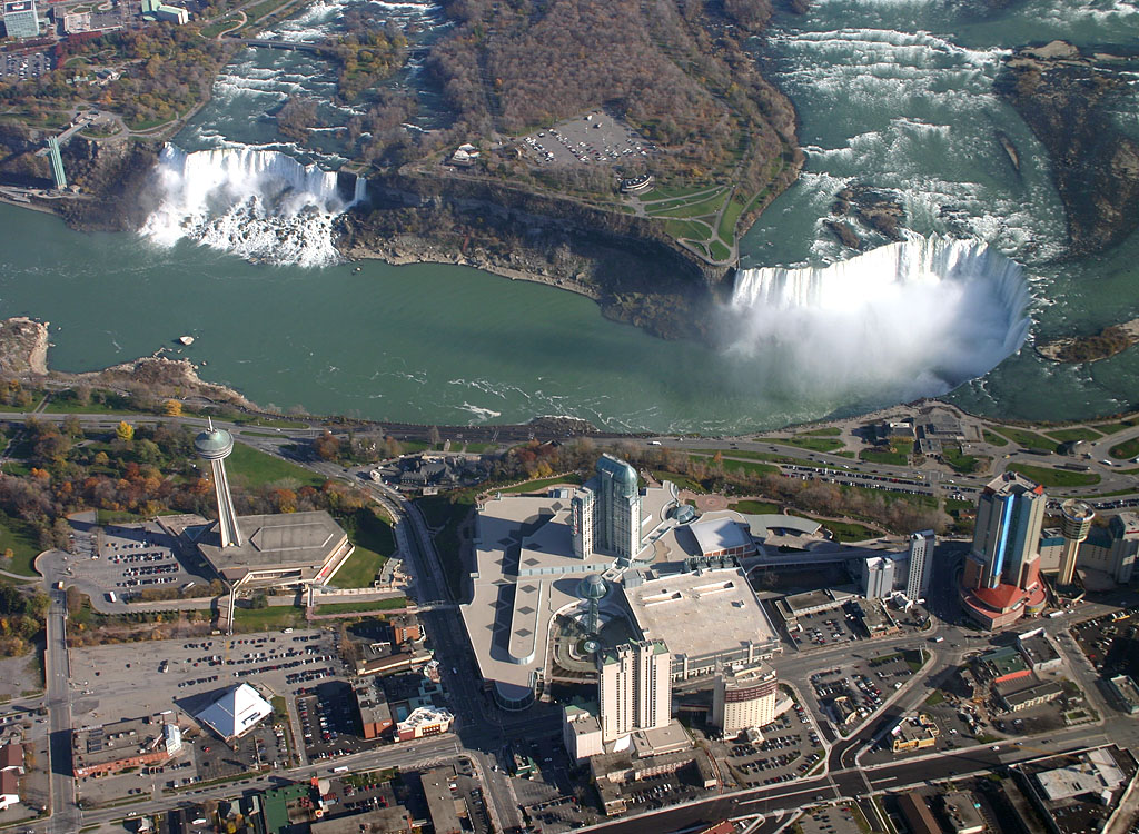 An aerial overview of Niagara Falls taken from 3,500 ft. November 2005